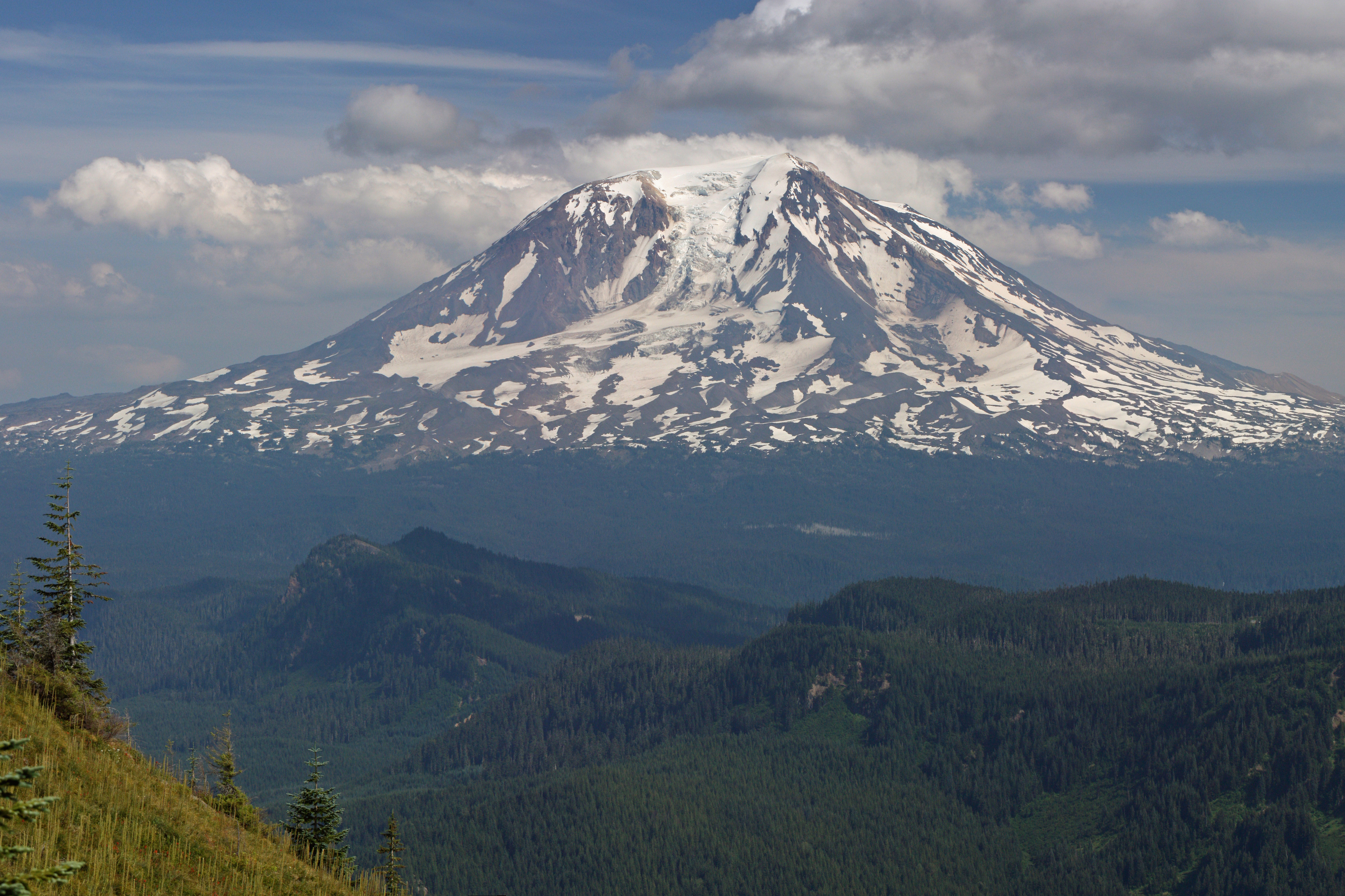 Mount Adams, Washington with Adams Glacier (center); Council Bluff (5180 feet, left middle distance); Table Mountain (5080+ feet, right middle distance); stitched panorama; please see "Other versions" for source images. This image was created with Hugin. Viewpoint location: Juniper Ridge Trail 261 Dark Divide Viewpoint elevation: 1626 meter (5334 ft) View direction: 120° Location source: Garmin GPSmap 60CSx Location Datum: WGS84